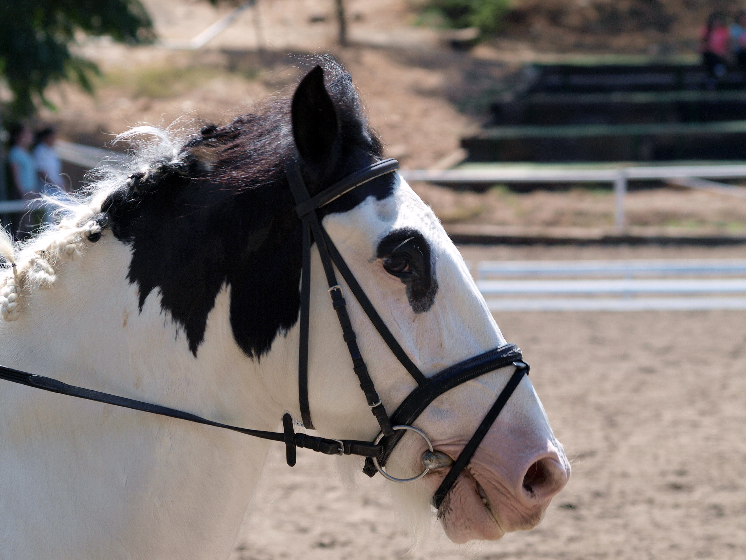 Balimore the beautiful horse.